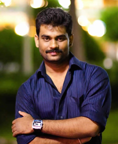 Photo of Sanyog Mohite